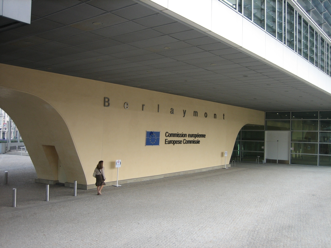 Outside the Berlaymont building of the European Commission